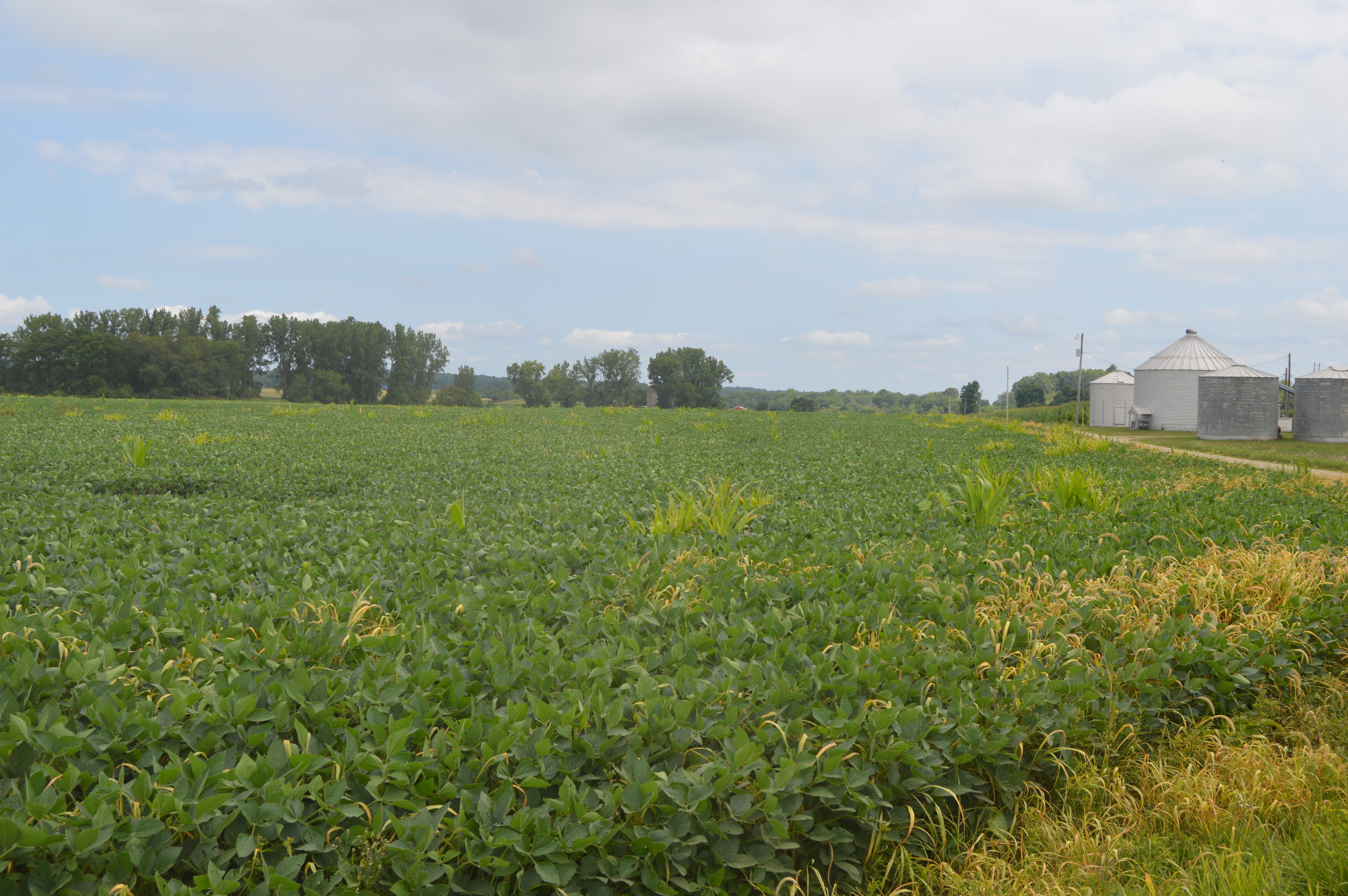 Soybean fields on the western side of the bend on Spray Lane in northeastern Morgan Township, Knox County, Ohio, United States.